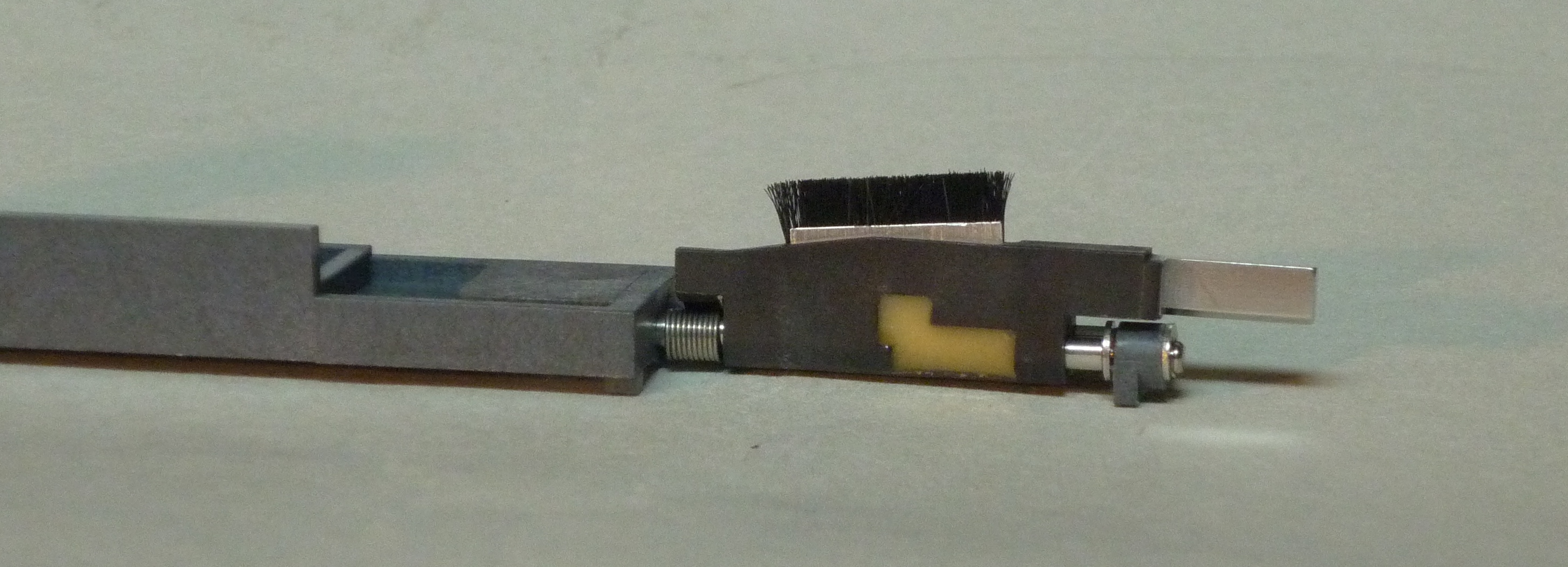 Internal cleaning brush from an IBM LTO2 tape drive (FH). The brush swipes down across the read-write head when a cartridge is inserted and swipes up across the head when the cartridge is ejected.